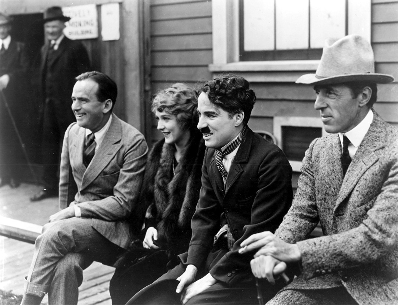 United Artists Corporation stockholders Douglas Fairbanks, Mary Pickford, Charlie Chaplin and D.W. Griffith in 1919.